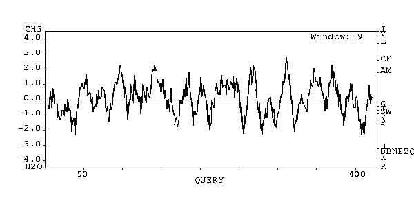 hydropathy plot for importin